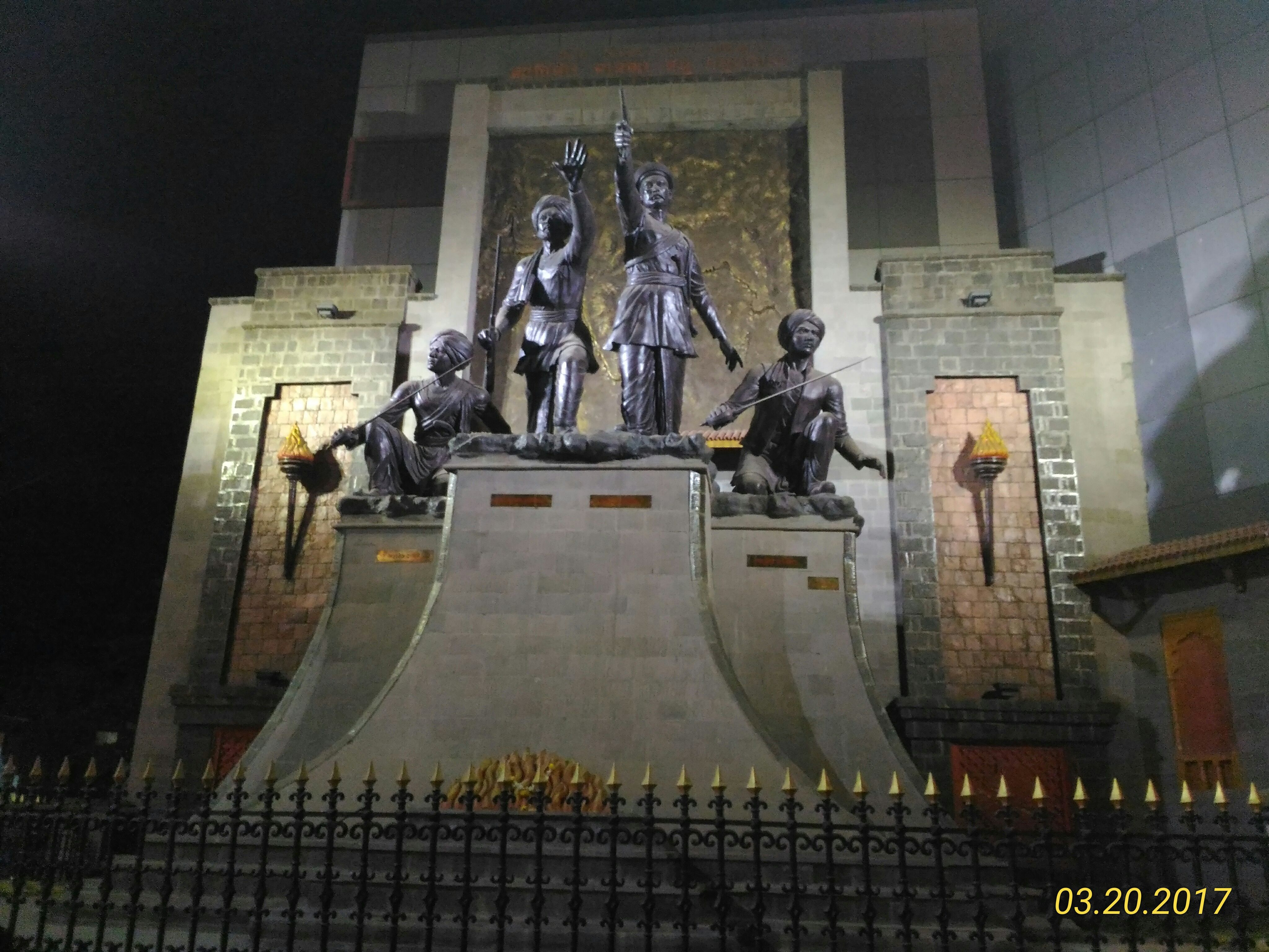 Monument at Chaphekar Chowk